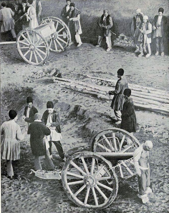 A man is blown of the mouth of a cannon in Persia (Iran), Late Qajar Era.